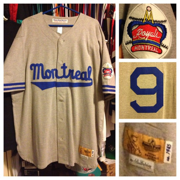 Jackie Robison uniform worn with the Montreal Royals.